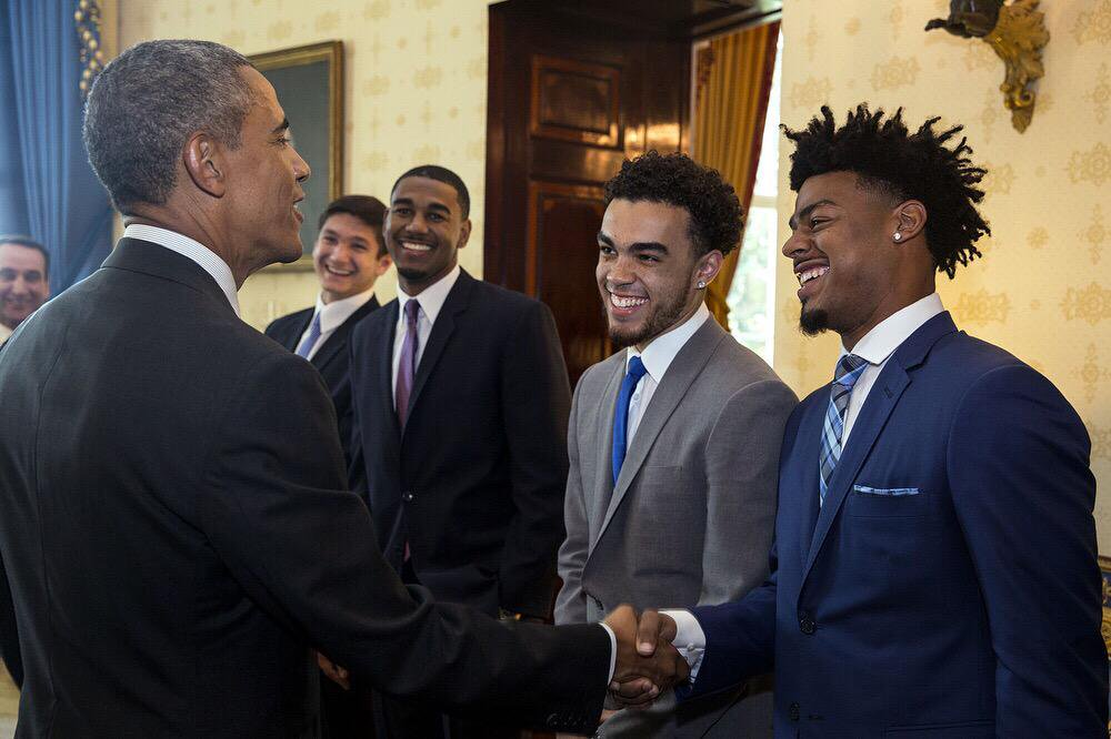 President Barack Obama greets Quinn Cook and Tyus Jones during a White House event honoring their 2015 NCAA Men's Division I National Championship. Matt Jones, Grayson Allen and Coach Mike Krzyzewski are seen in the background